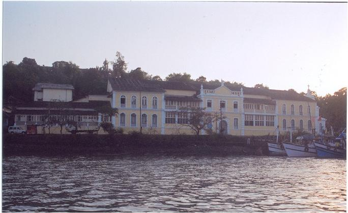 Goa Institute of Management